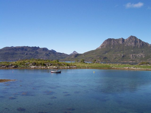 The picture shows a view from Eidsfjord in Vesterålen in Norway.